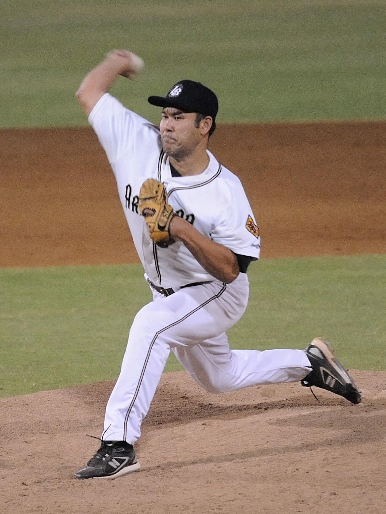 Hideki Irabu in 2009